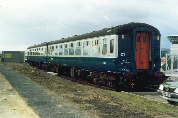 Cheriton. A couple of ex-B.R. Mk.2 coaches used to house facilities for visiting parties of schoolchildren at Cheriton near the Channel Tunnel Terminal, Kent, England. Mark 2C TSO 5541 is nearest to the camera.